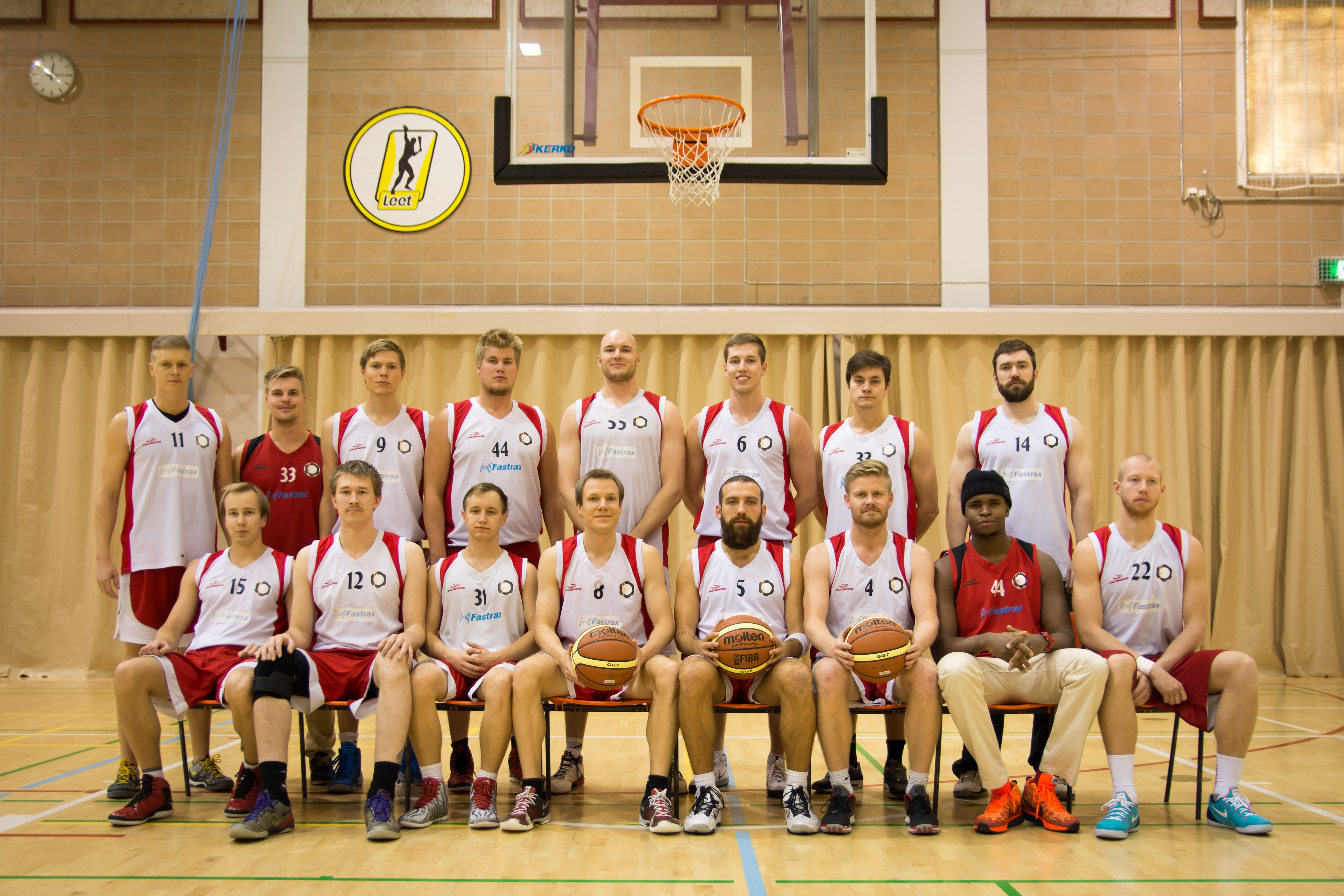 PUS-Basket's men's 1st team picture from 11/2014